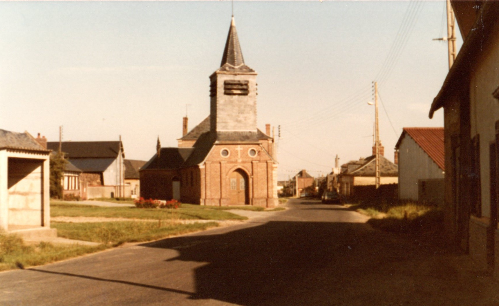 Eglise de Broquiers (Oise)